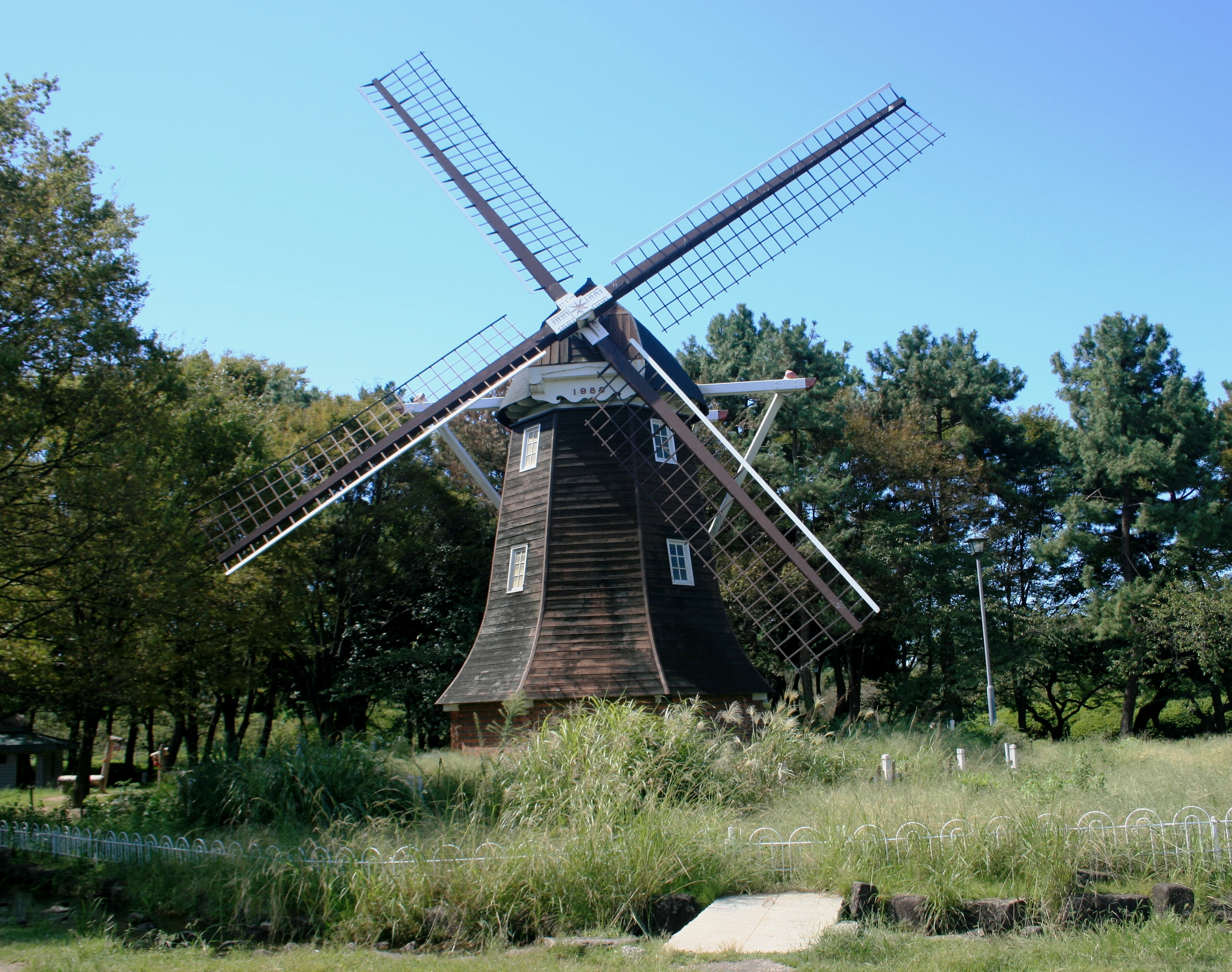 Windmill at Meijō Park